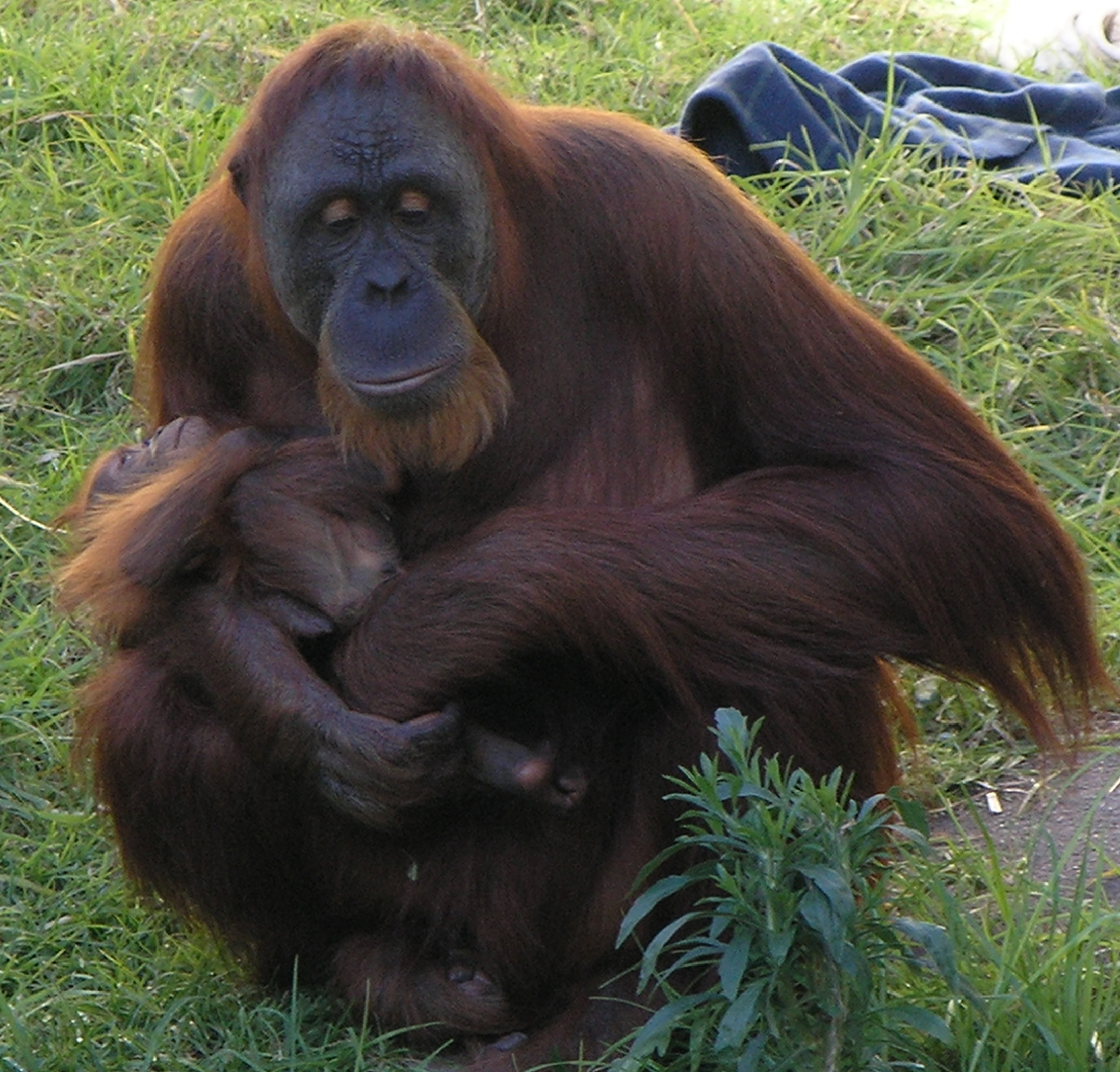 Female Orangutan in Perth Zoo Sept 2005